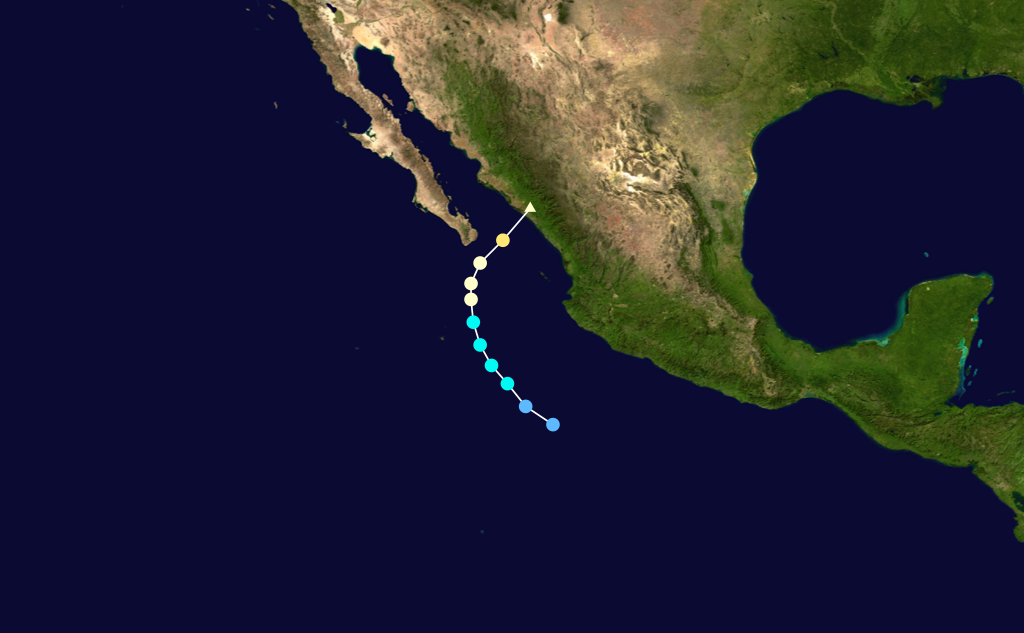 Hurricane Waldo (1985) track. Uses the color scheme from the Saffir-Simpson Hurricane Scale.